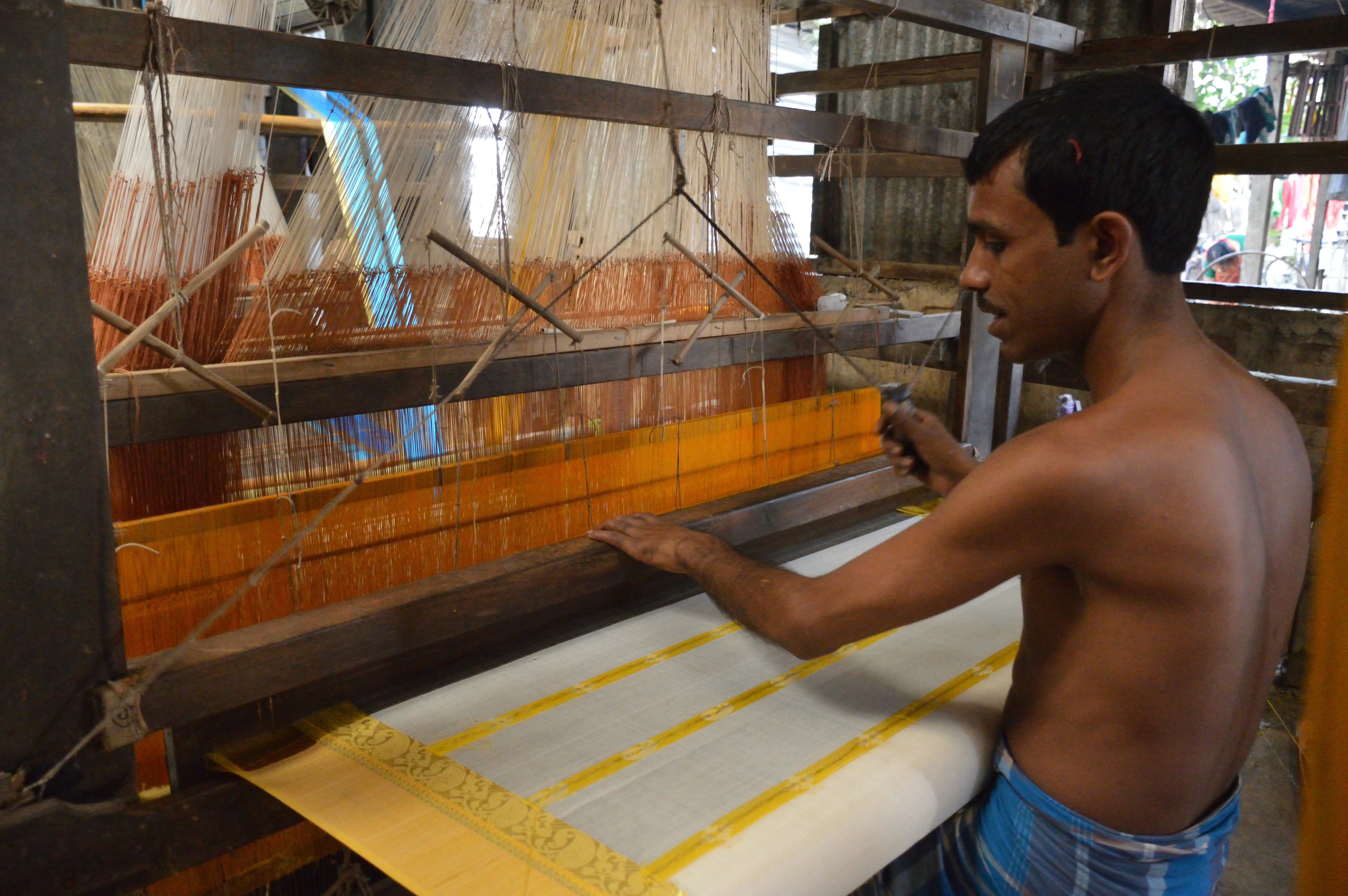 This videograph was teken at the 2 Natun Phulia or Fulia, Nadia. Personality rights warning Although this work is freely licensed or in the public domain, the person(s) shown may have rights that legally restrict certain re-uses unless those depicted consent to such uses. In these cases, a model release or other evidence of consent could protect you from infringement claims.